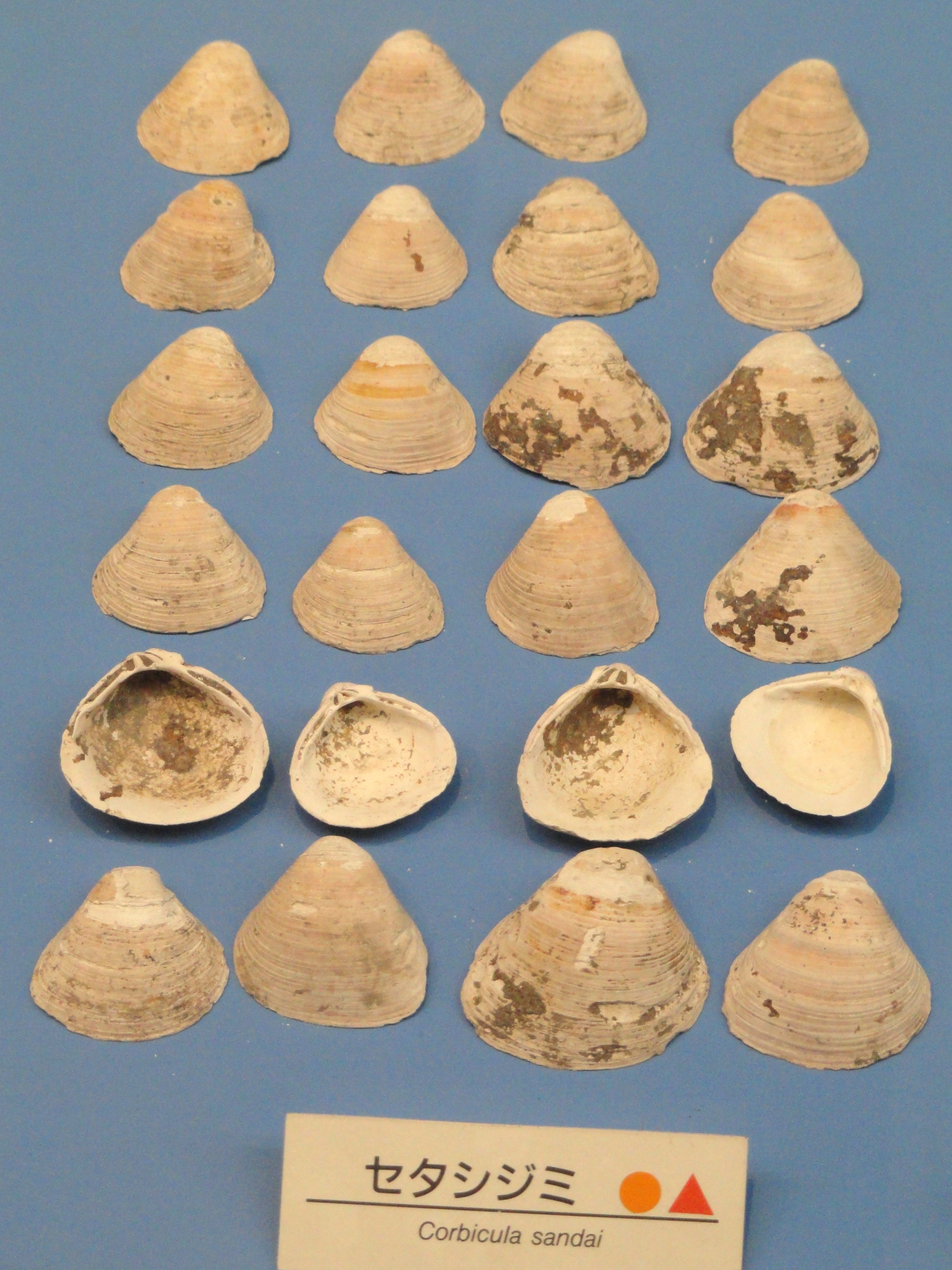 Exhibit in the Osaka Museum of Natural History, Osaka, Japan.